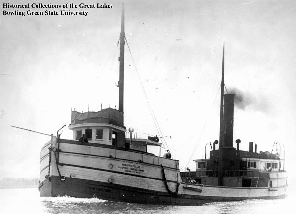 The steamer Three Brothers underway